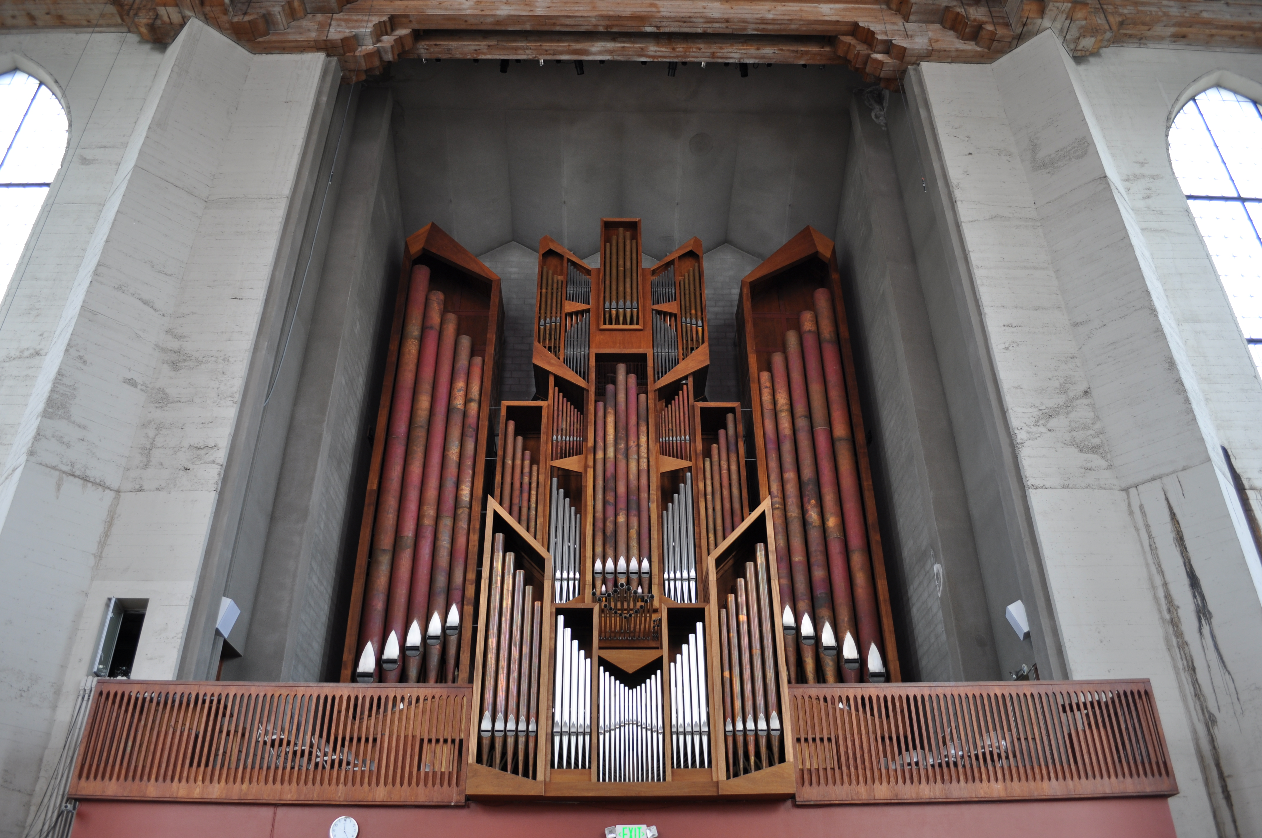 Choir loft and organ pipes, Saint Mark's Cathedral (Episcopal), Capitol Hill, Seattle, Washington, USA.